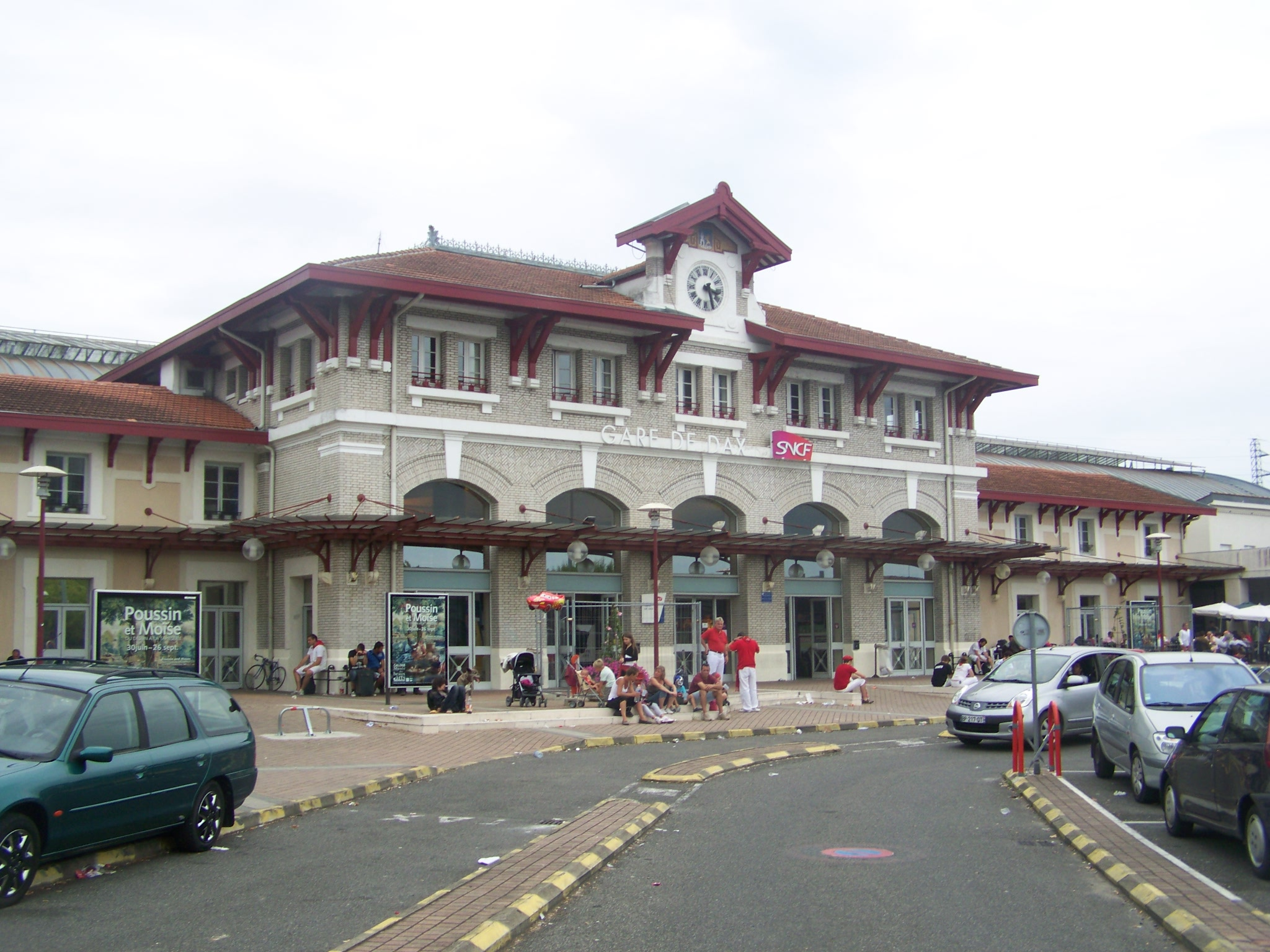 Building of city of Dax railway station in French department of Landes.